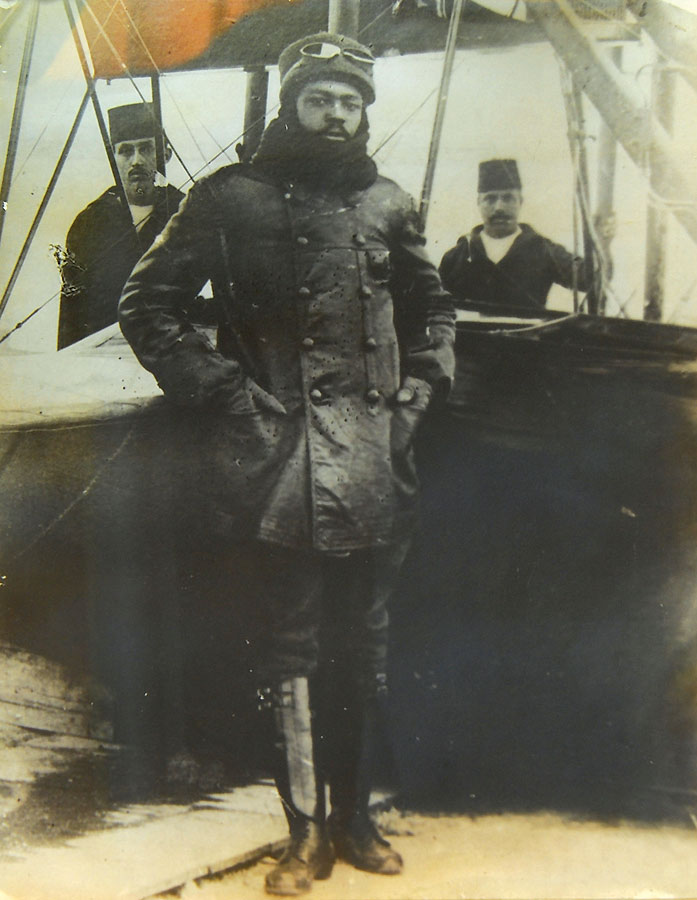 Ahmed Ali (Çelikten) in flight suit